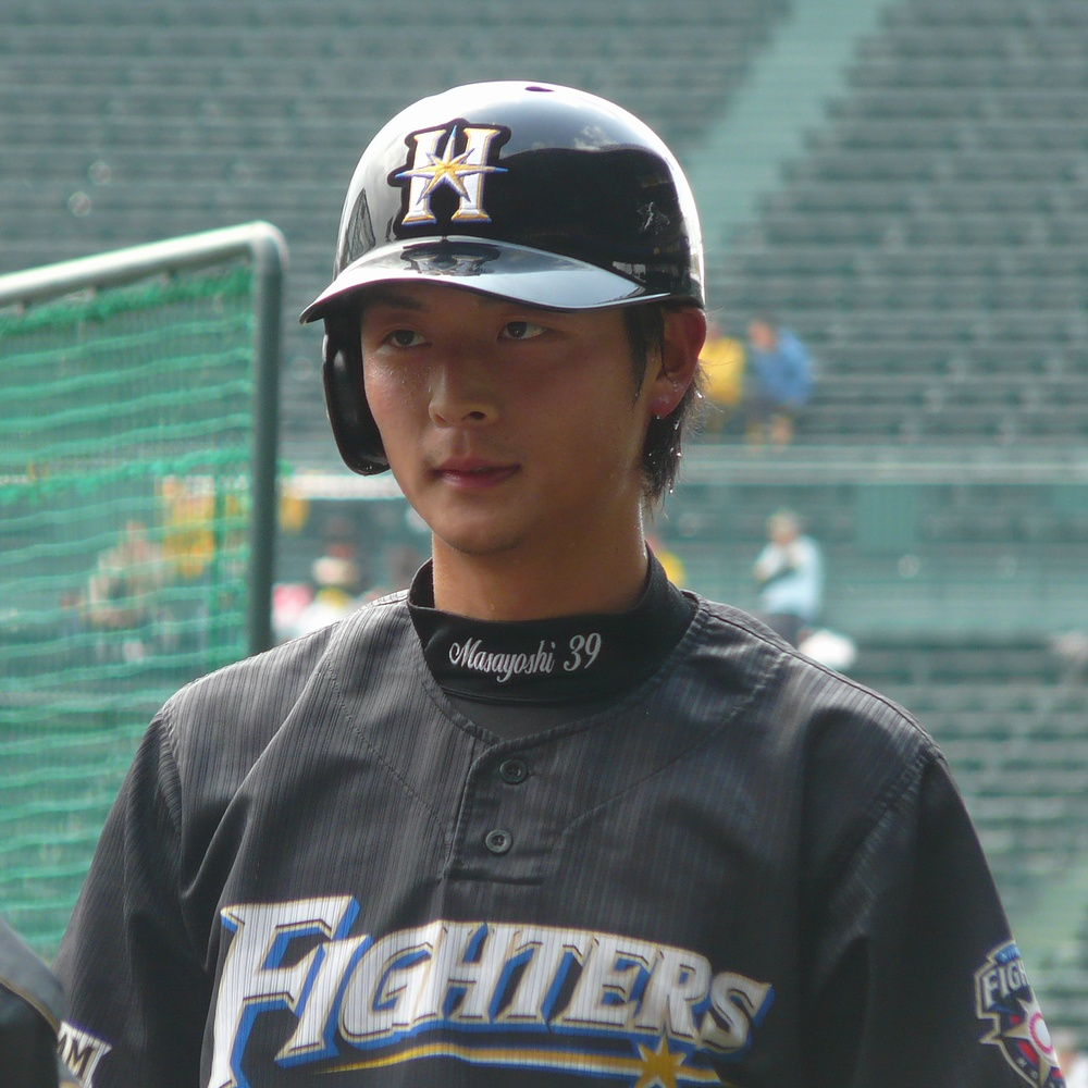 Masayoshi Kato, infielder of the Hokkaido Nippon-Ham Fighters, at Hanshin Koshien Stadium.